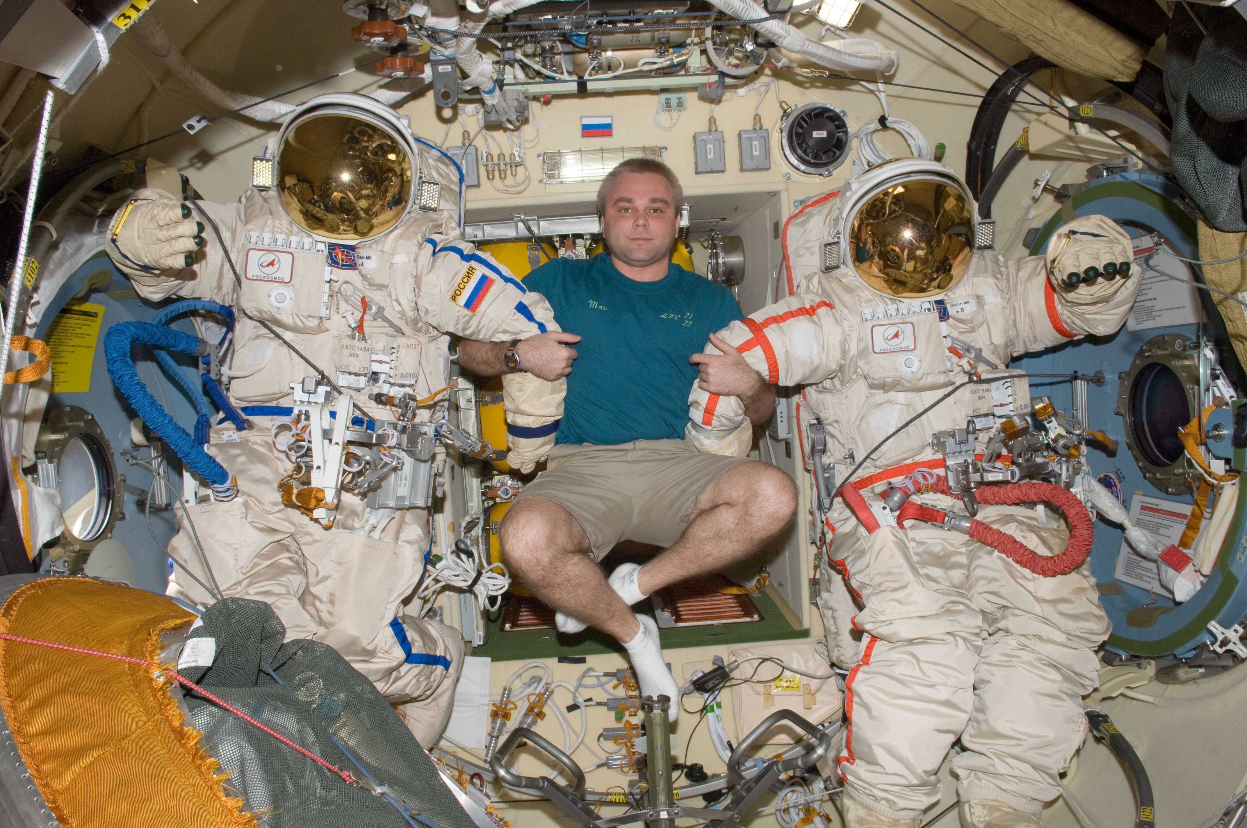 Russian cosmonaut Maxim Suraev, Expedition 22 flight engineer, poses for a photo with two Russian Orlan-MK spacesuits in the Poisk Docking Compartment of the International Space Station.